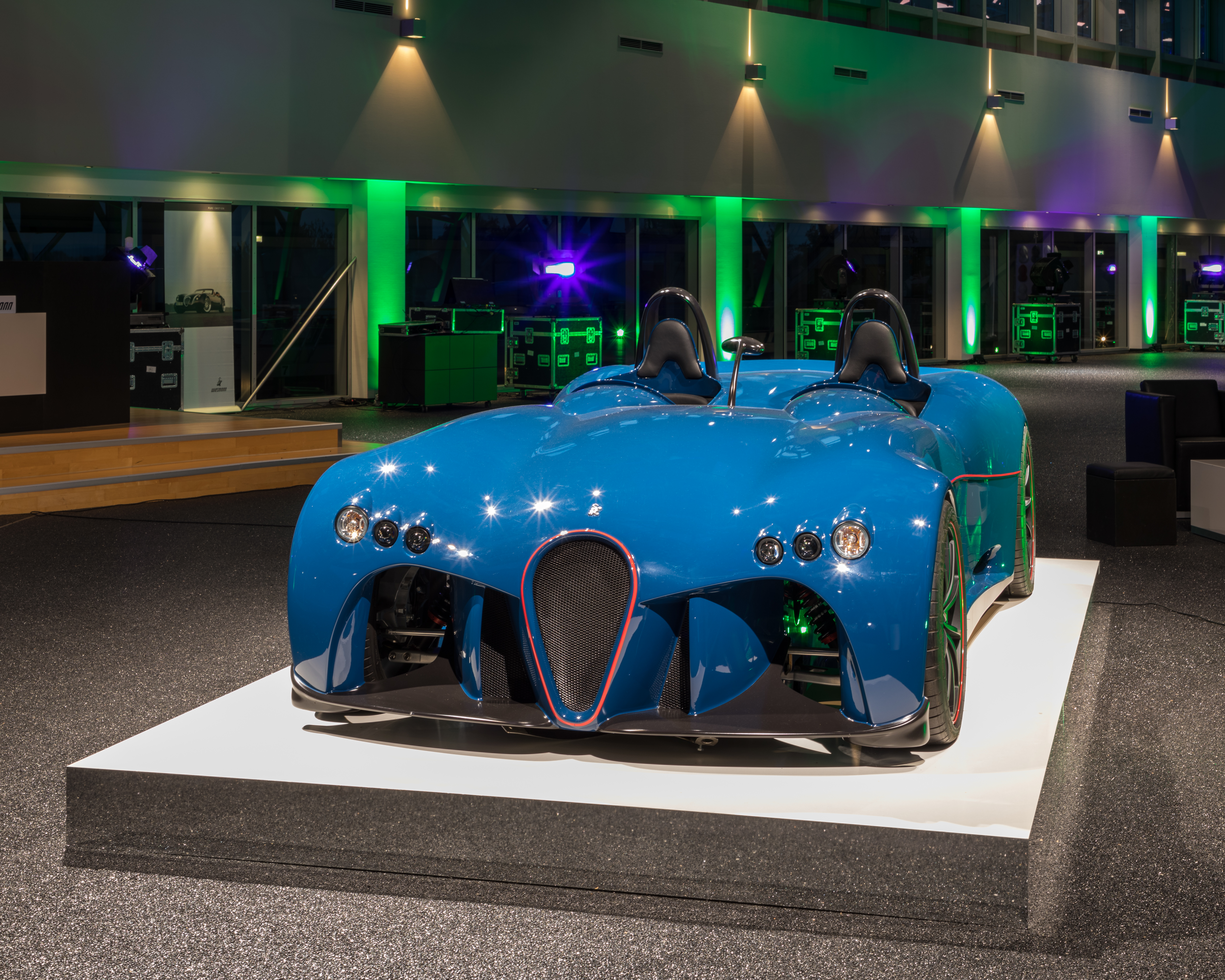 Wiesmann Spyder Concept at Wiesmann Sports Cars, Dülmen, North Rhine-Westphalia, Germany